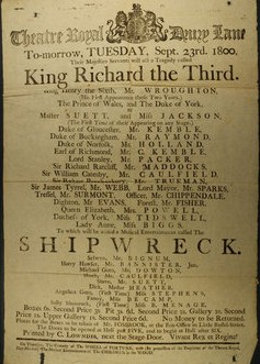 23 September 1800 - Big poster for Richard III at the Theatre Royal, Drury Lane